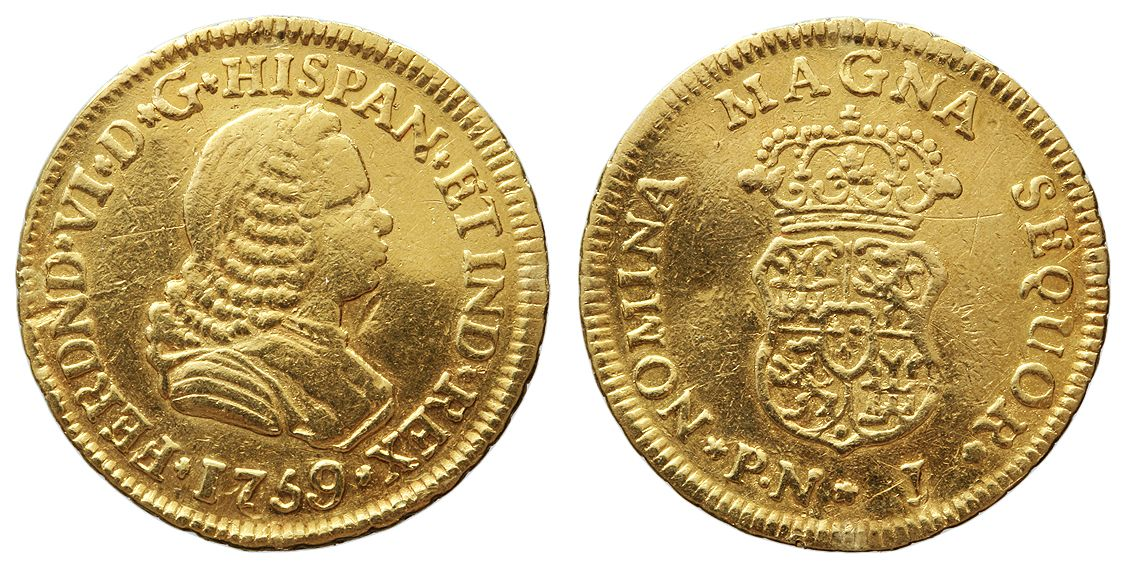 One escudo coin minted in 1759, under the reign of Ferdinand VI of Spain. It was made in gold in Popayán (nowadays Colombia). Legends: obverse "FERNAND[US] VI D[EI] G[RATIA] HISPAN[IARUM] ET IND[IARUM] REX" i.e. "Ferdinand VI by the grace of God king of the Spains and the Indies"; reverse "NOMINA MAGNA SEQUOR" i.e. "I succeed great names".